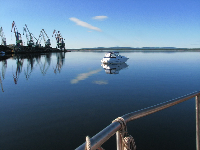 Lupcha Bay